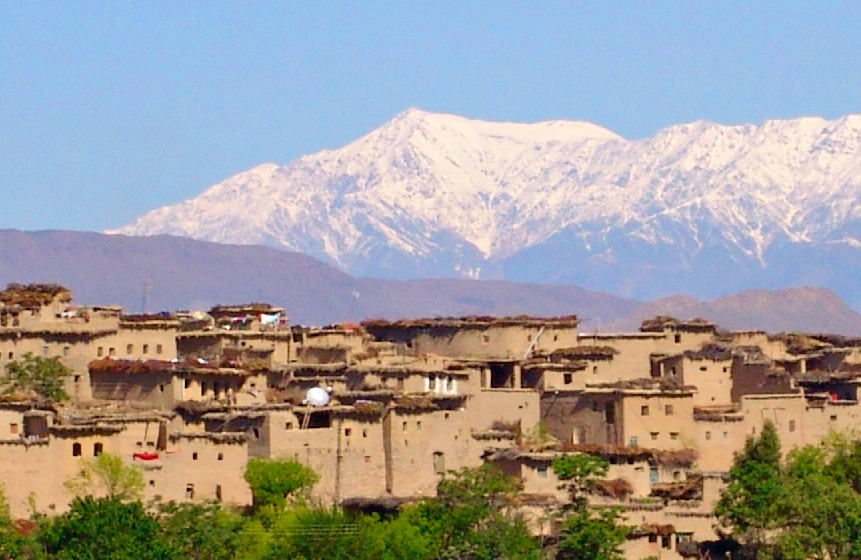 Borki, situated on Pak-Afghan border [Durand Line], is the gateway to Pakistan from Afghanistan and vice versa and is the last village of Pakistan at the border with large population. Village Borki was once a popular market of timber wood business.